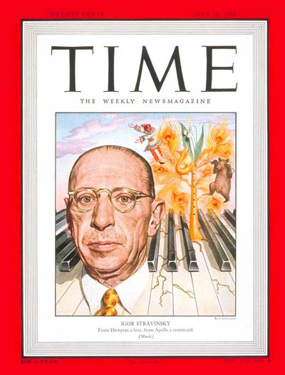 Time magazine, Volume 52 Issue 4. Front cover is an illustration of Igor Stravinsky.